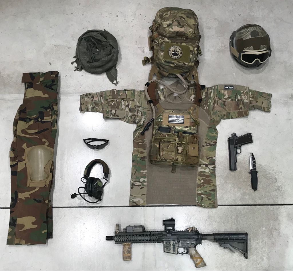 example of SoftAir equipment.